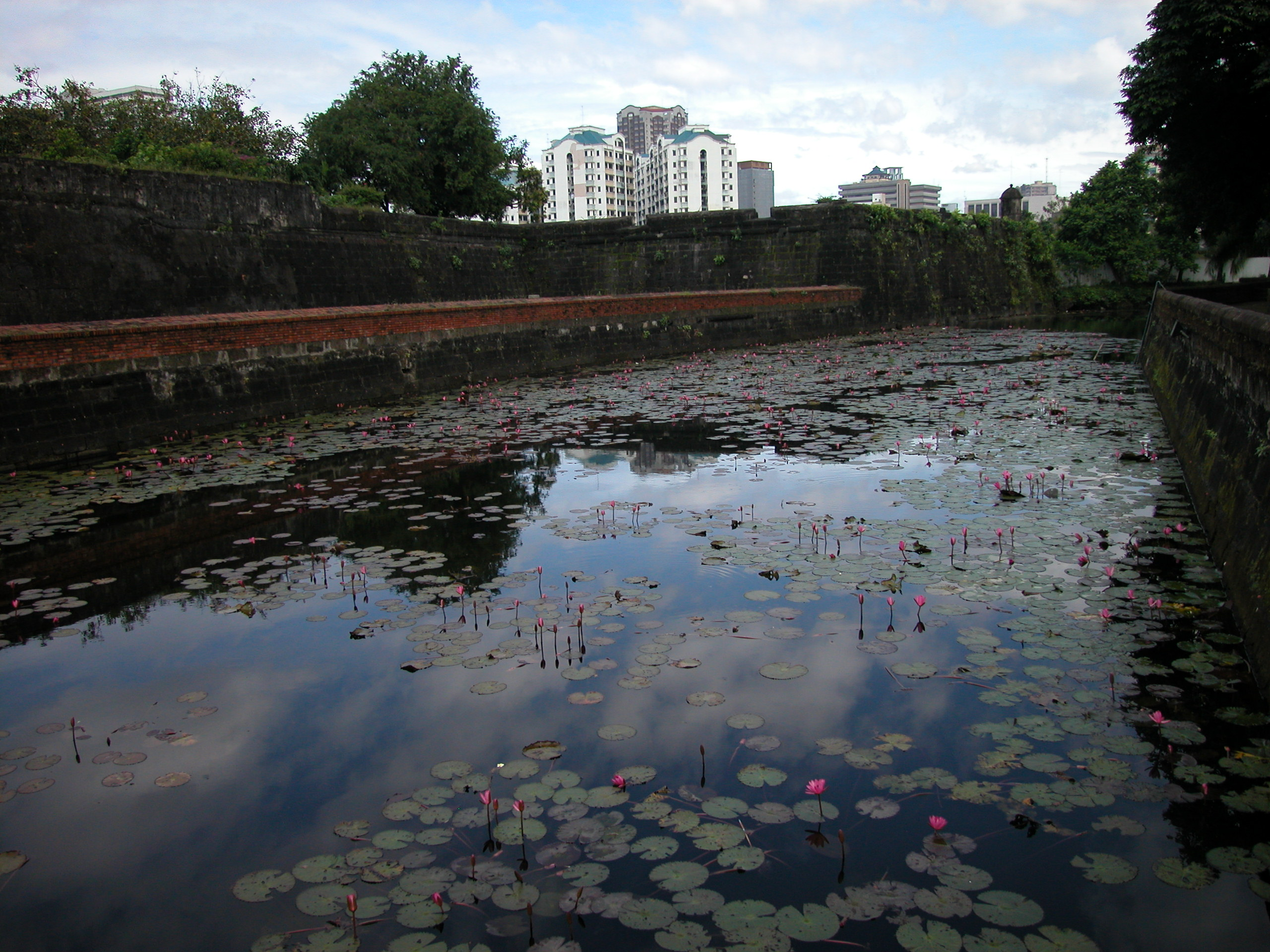 Photo portraiting the beautiful lotus (nilad) flower. Intramuros, Manila